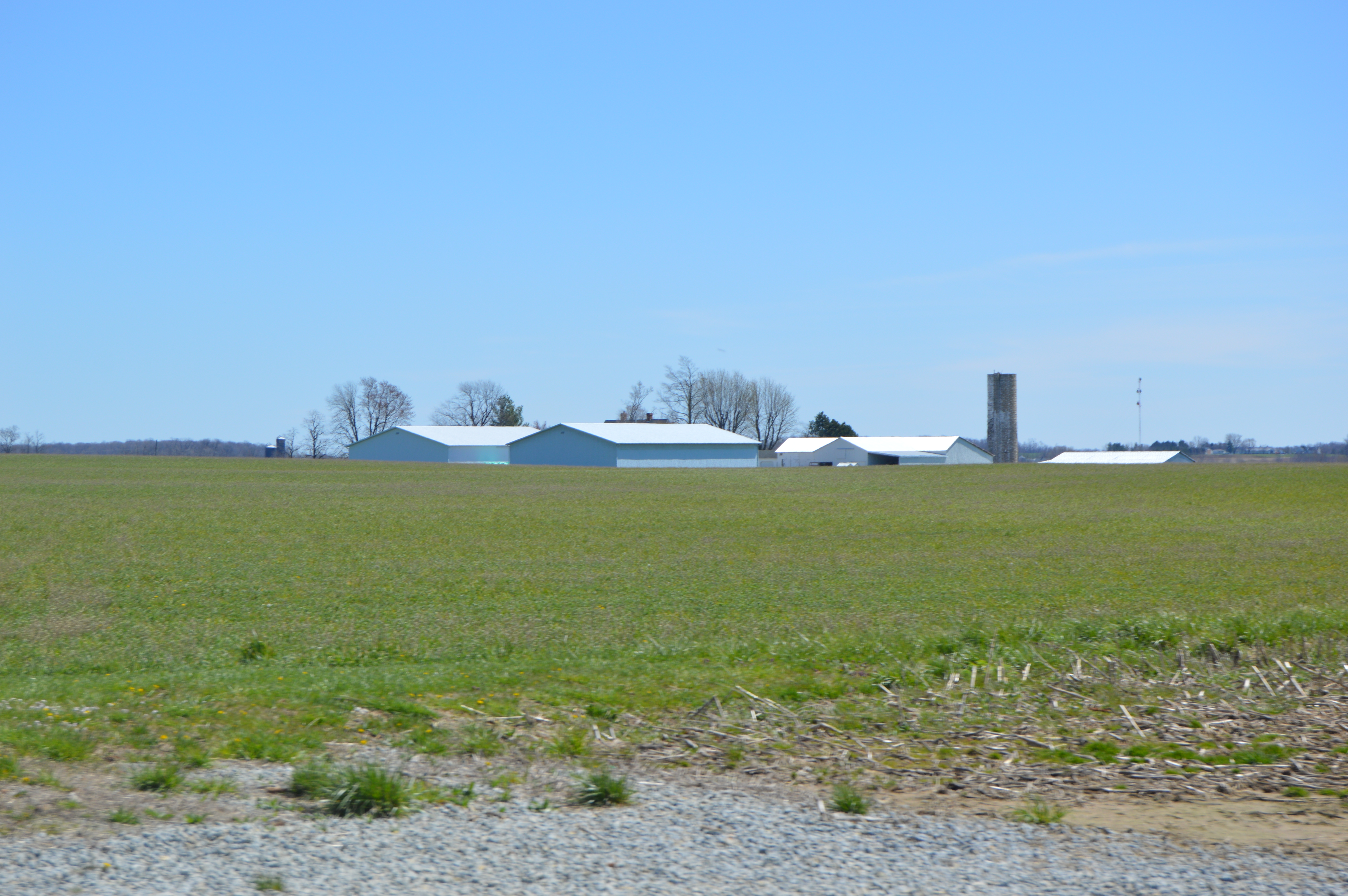 Fields and a farmstead on New Vienna Road in Penn Township, Highland County, Ohio, United States.